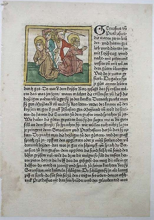 Jacobus de Voragine: Legenda aurea, German (Der Heiligen Leben). Description of St Gervasius and Protasius.